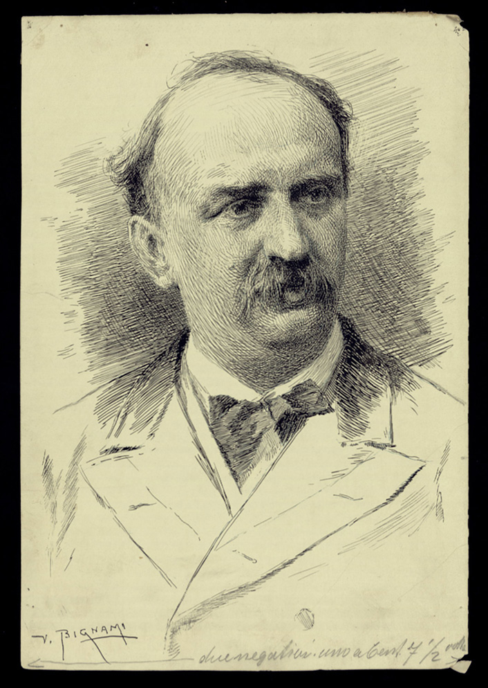 Portrait of Leone Fortis, playwriter (1827-1898), before 1929.